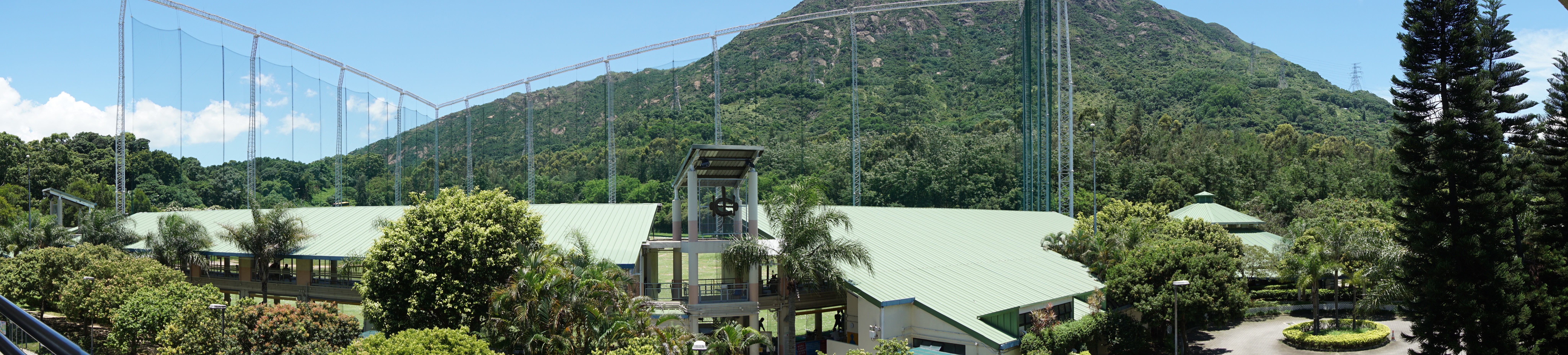 Golf Centre in Tuen Mun, Hong Kong.